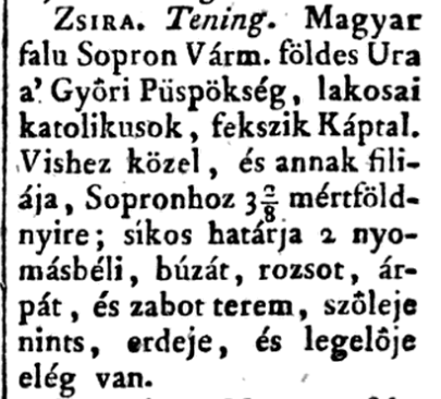 Hungary (Zsira)